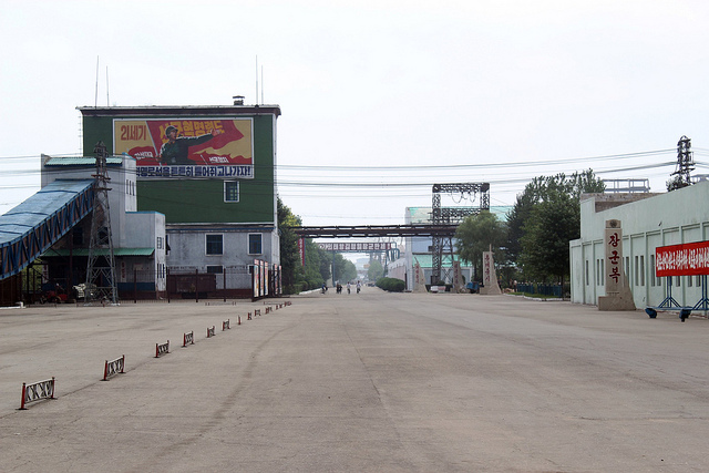 The Hungnam Fertilizer Complex taken from the entrance.